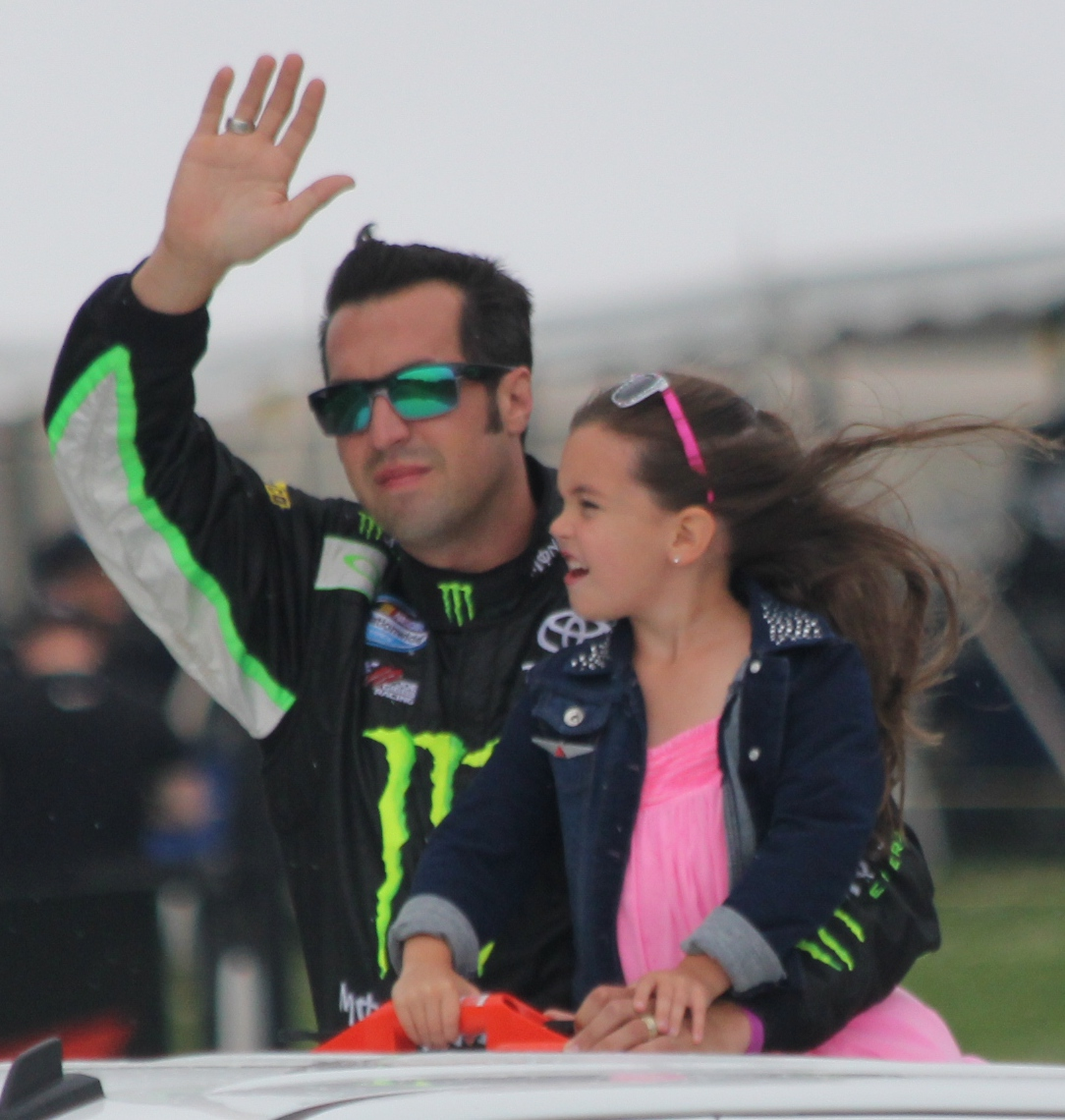 NASCAR Nationwide Series driver Sam Hornish Jr. waves with his daugher Addison to the crowd at the 2014 Gardner Denver 200 event at Road America. He led the most laps in the race.